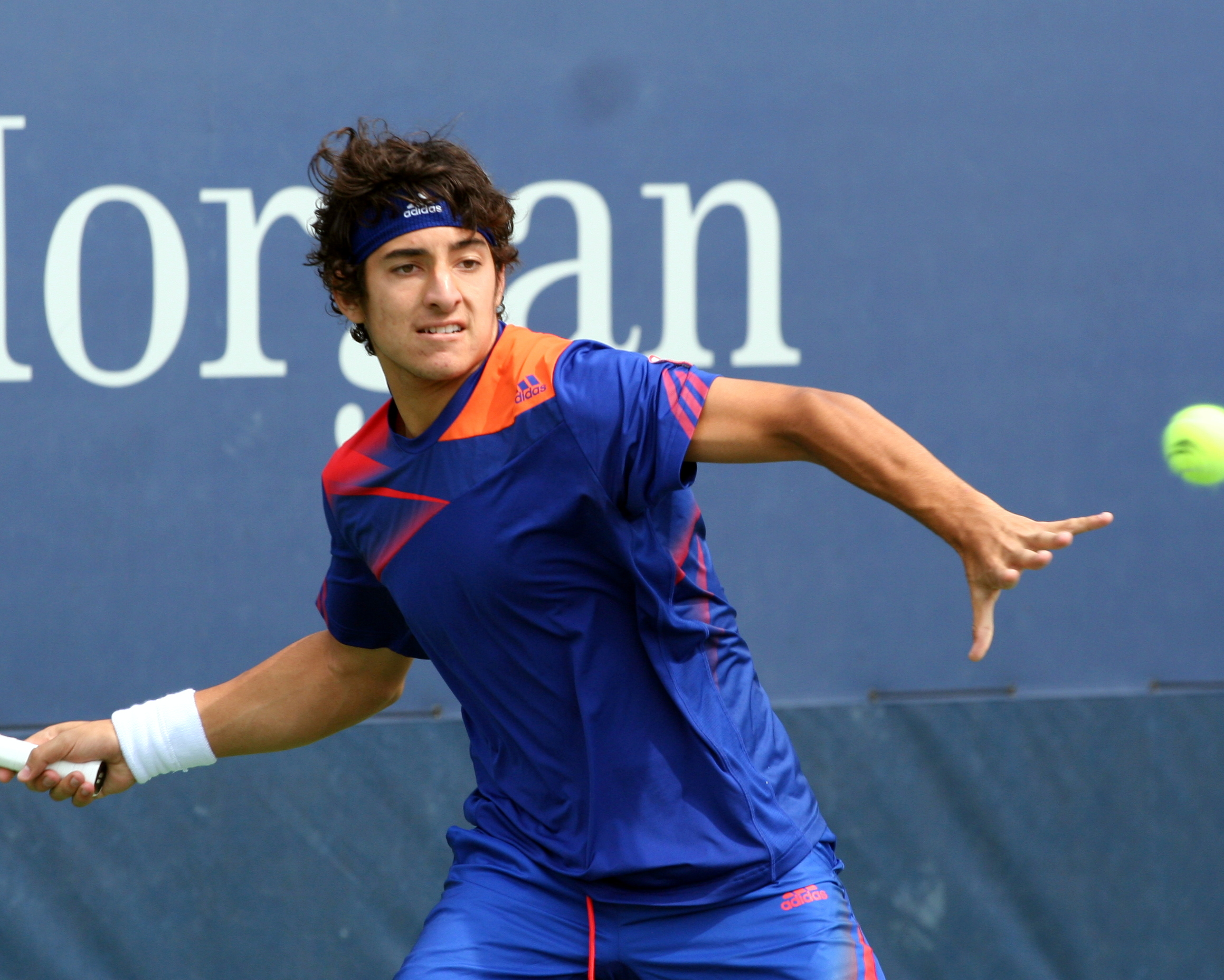 Christian Garin playing in the 2013 US Open (juniors)